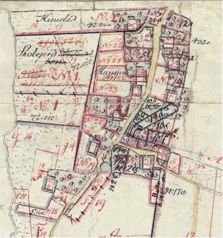 Detail of a map from 1805 (matrikelkort) showing Viby Sjælland (Gammel Viby), Roskilde Municipality, Denmark